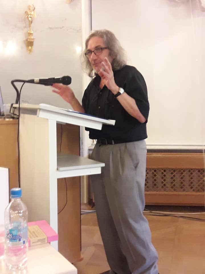 Ian Probstein's presentation at the Saint Petersburg University at the conference Transatlantic Connections in American and European Literature